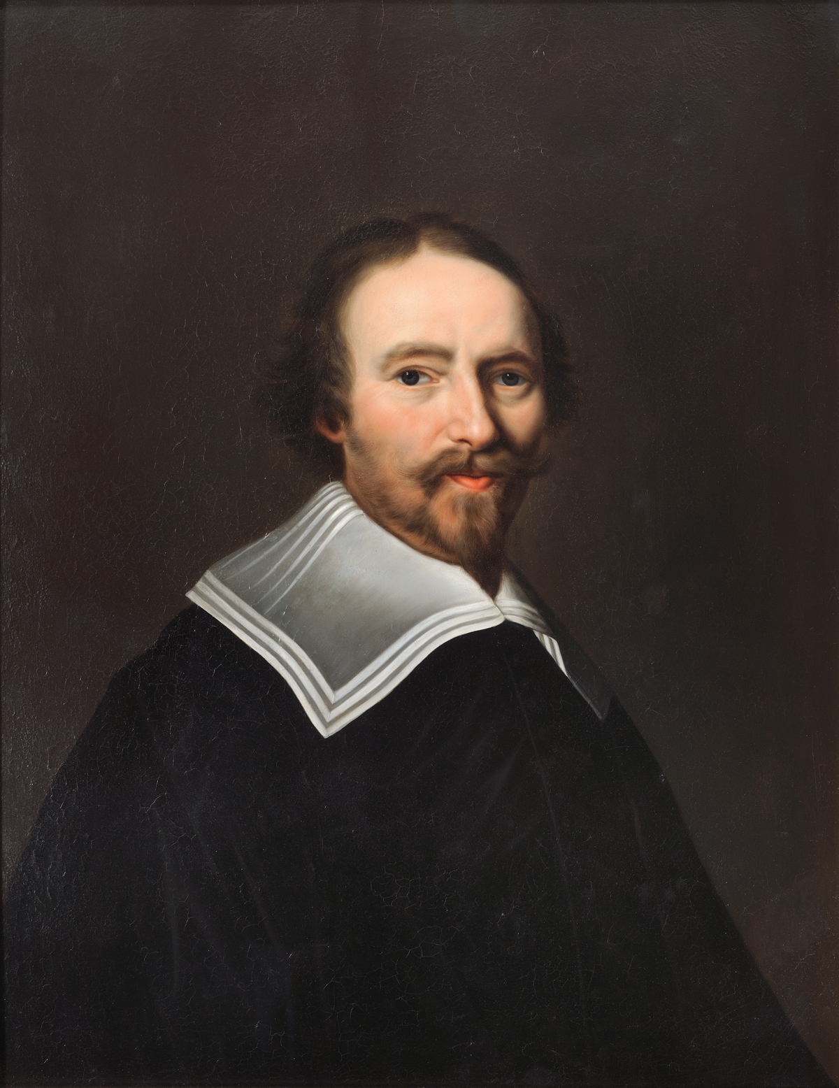 Courtesy of the Valence House Museum collection, Dagenham.